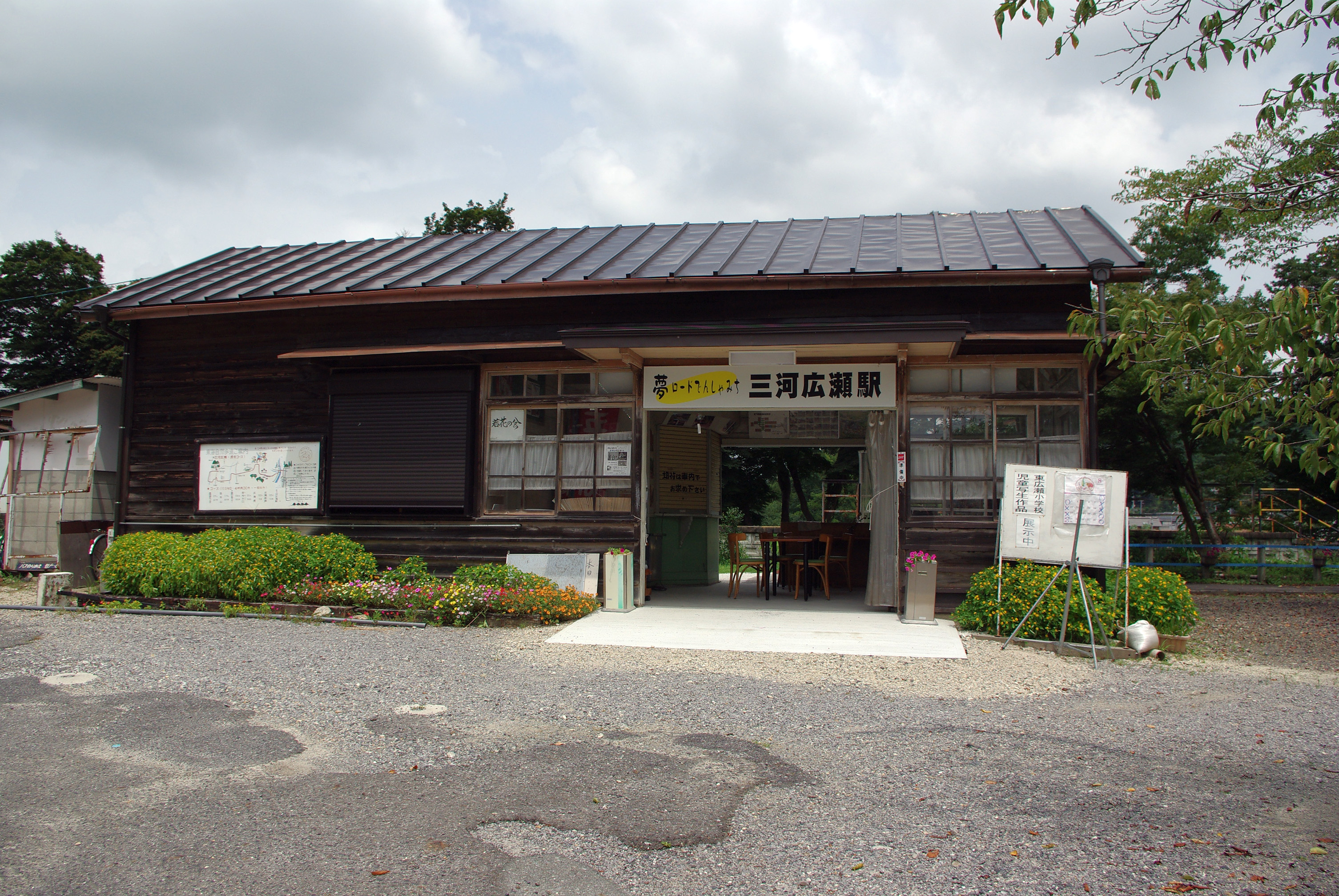 Mikawa Hirose Station Building (after the abolition)